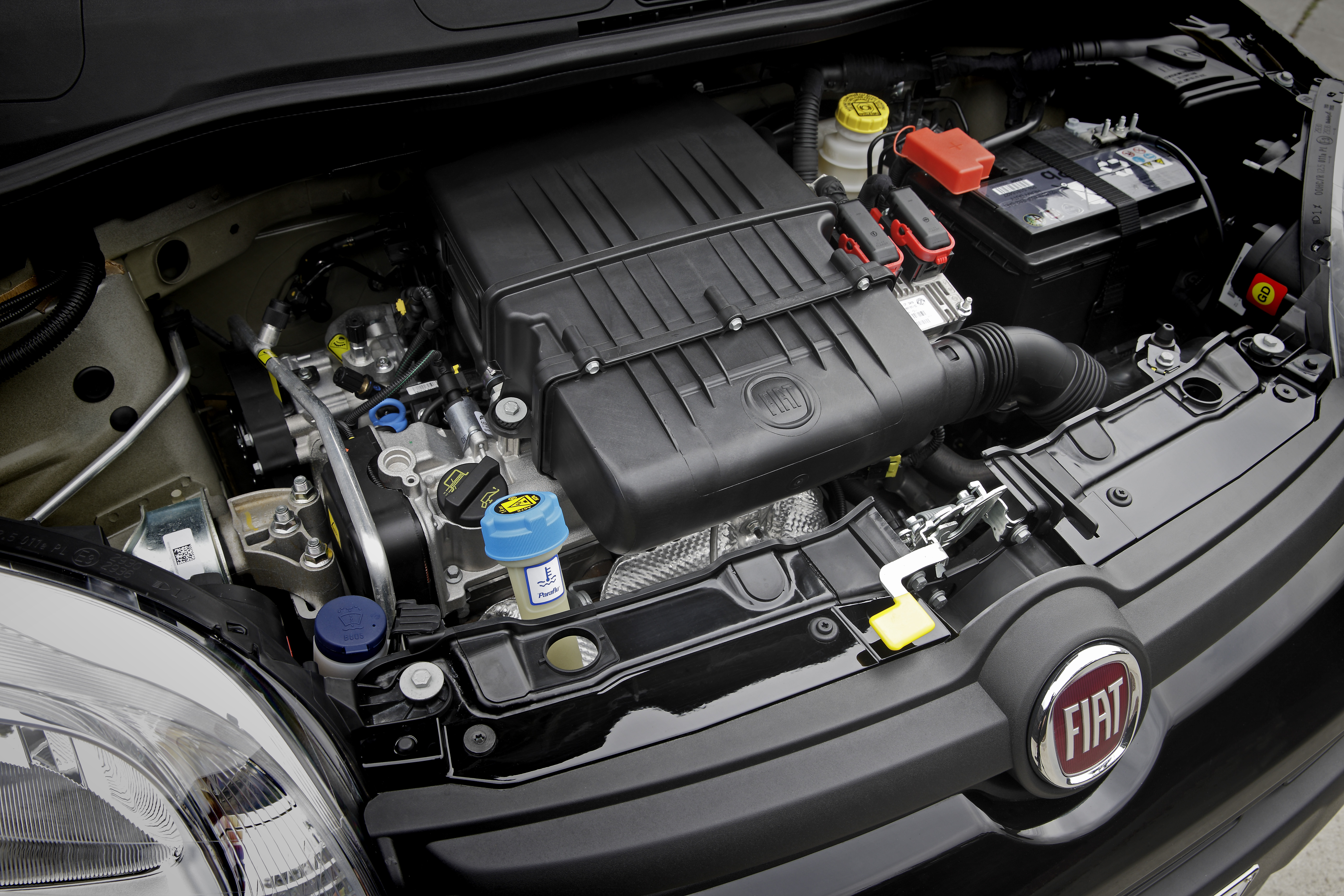 Fiat’s growth spurt in our market continues with the launch of the Panda, a small five-door hatch that has a lot in common with the Fiat 500.